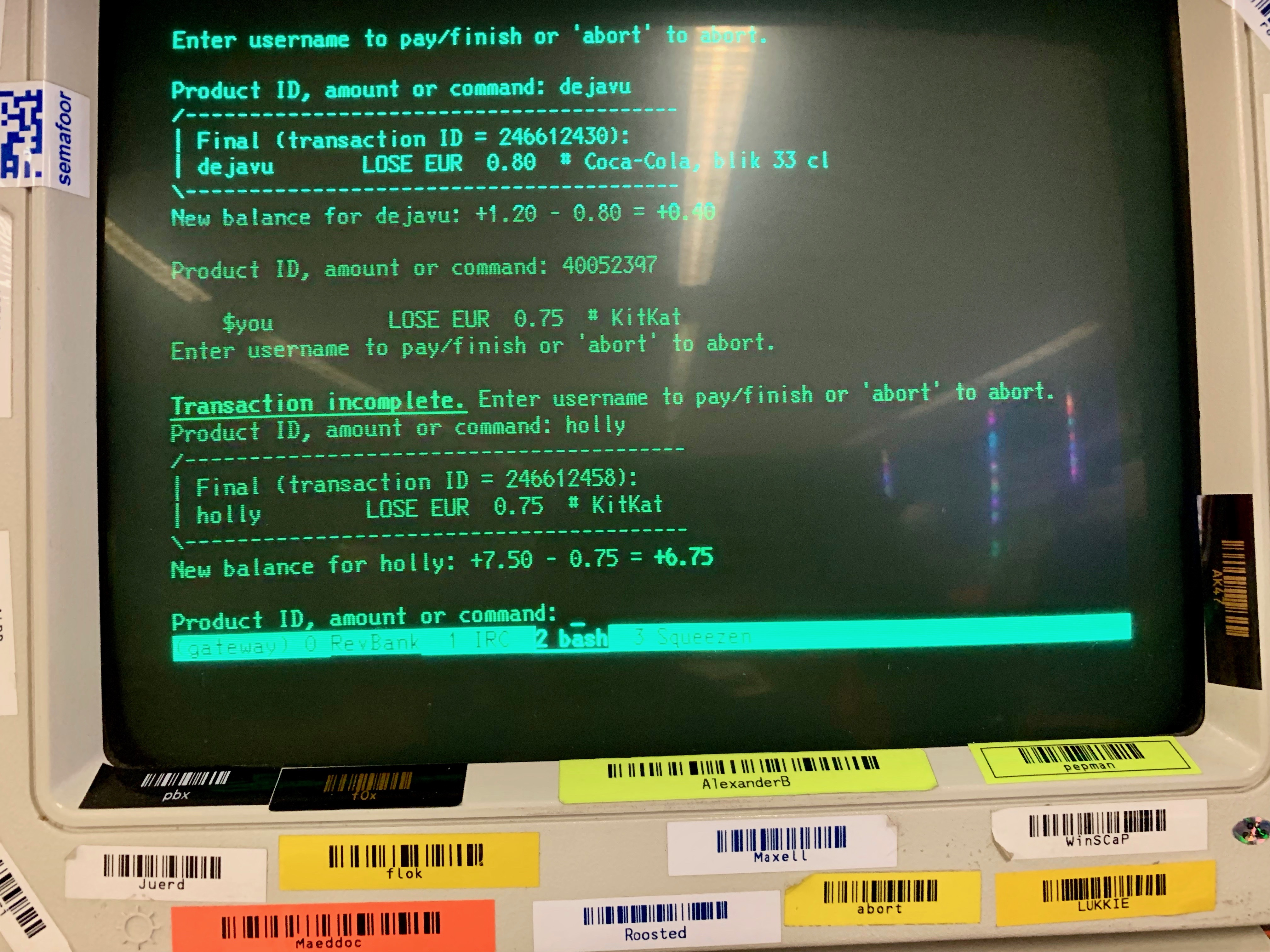 The RevBank commandline interface, which is developed by RevSpace participants.